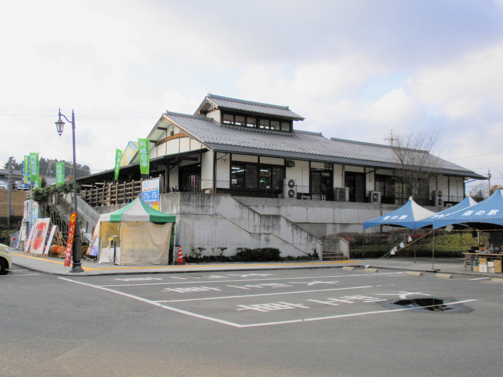 Roadside Station Kamogawa Enjō, Kibichūō, Okayama.